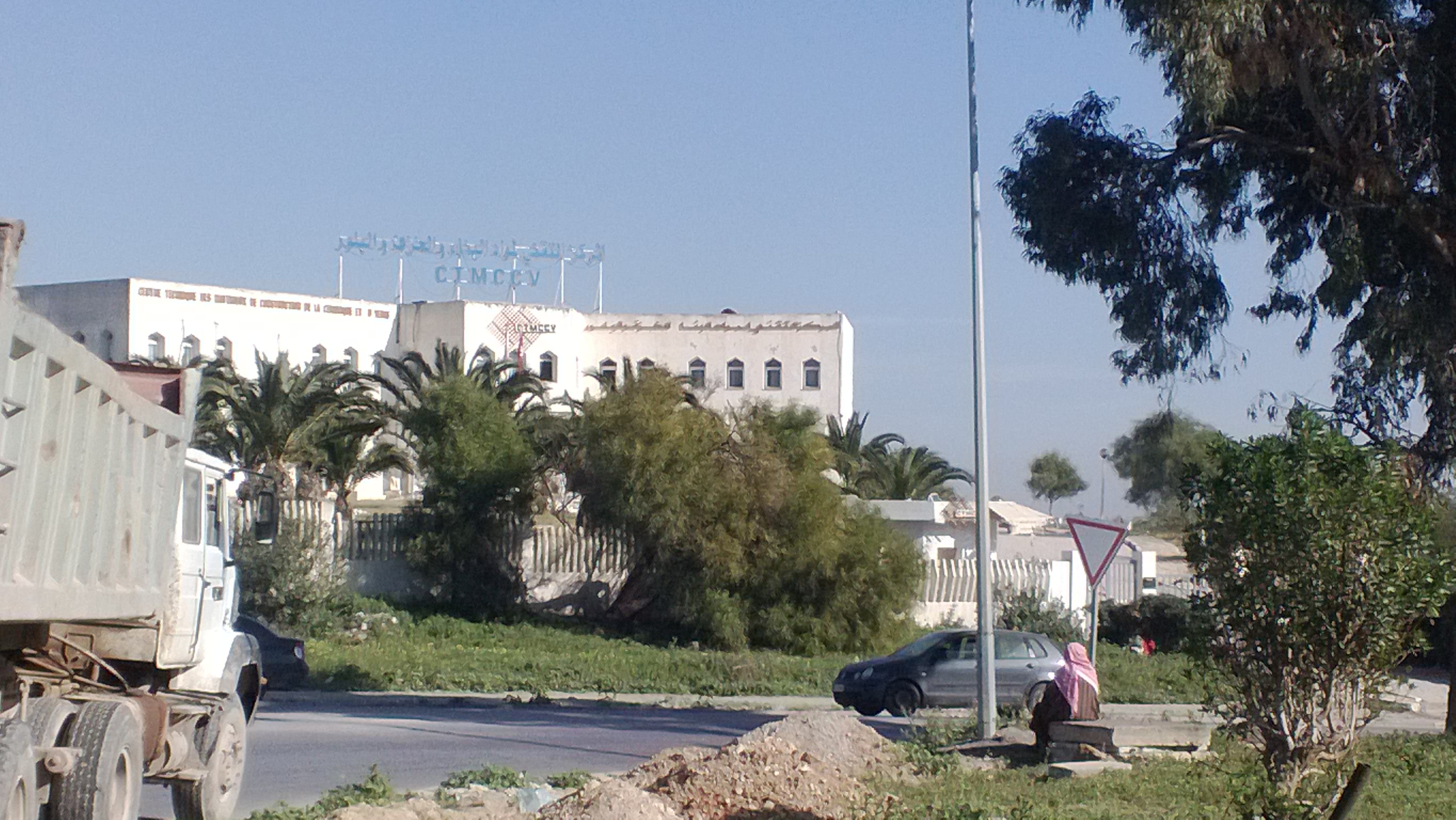 La Cagna, Tunis, Tunisia